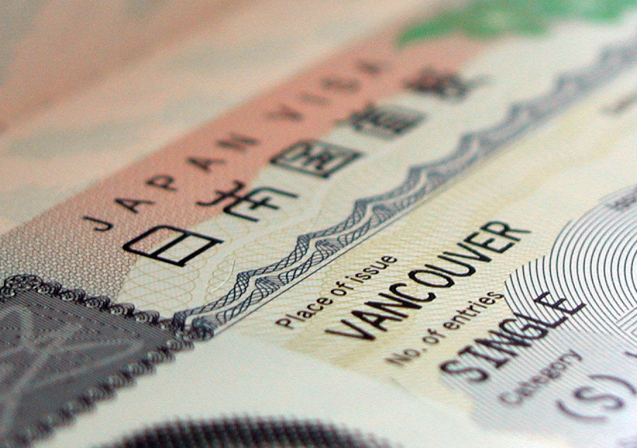 This is what a working holiday visa for Japan looks like.